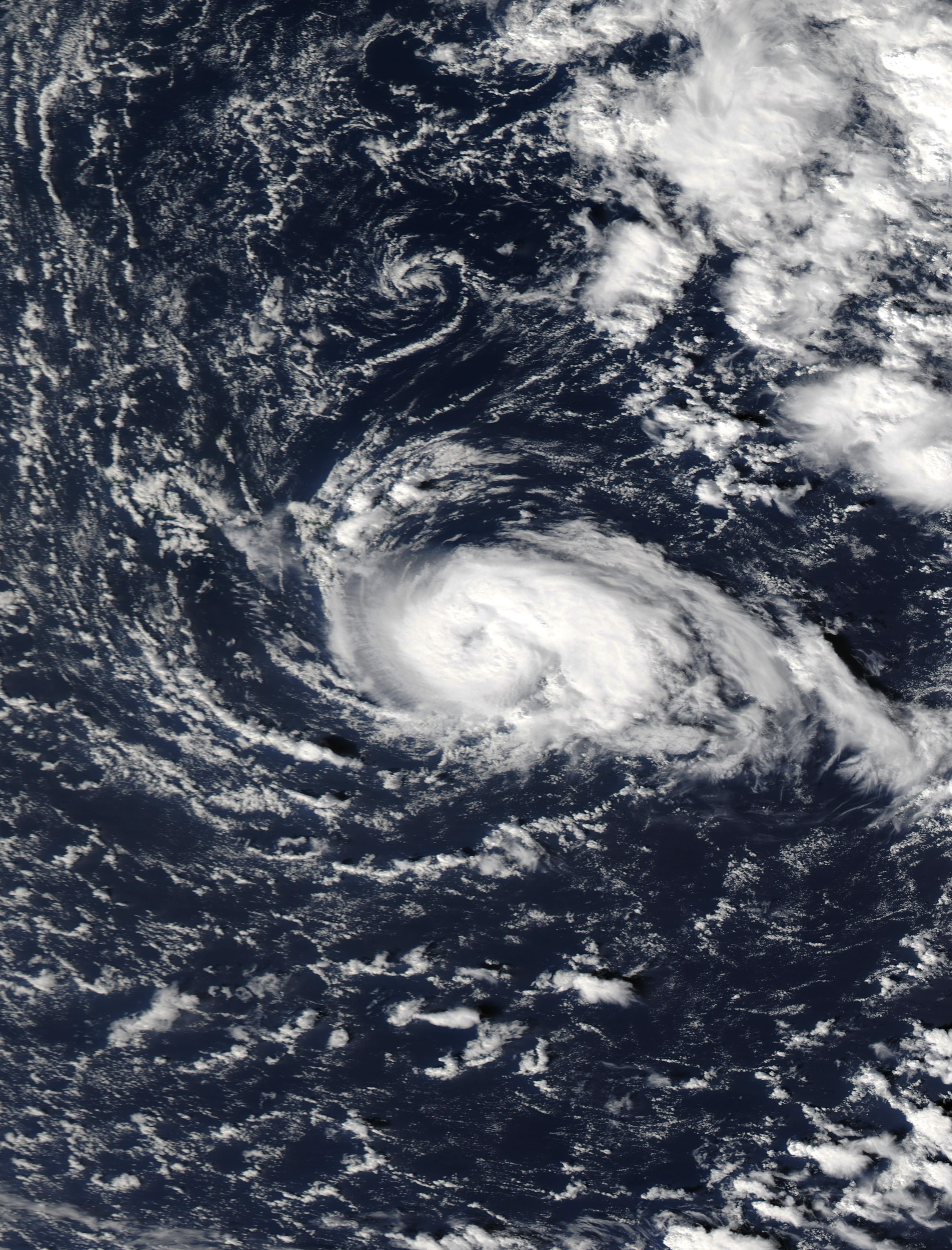 Tropical Storm Grace after it was classified on October 4.